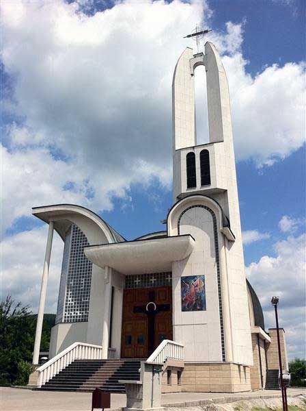 St. Elijah the prophet church in Kiseljak